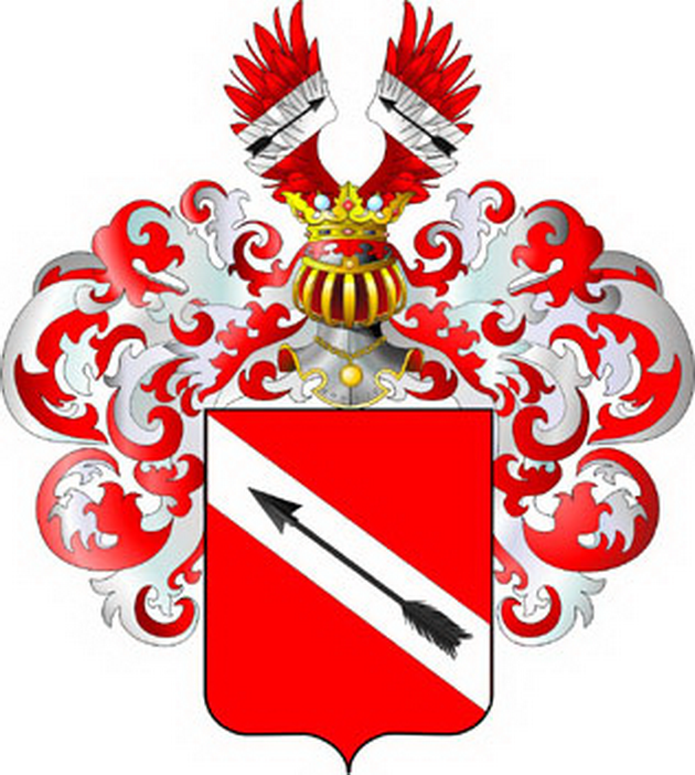 Coat of Arms of family Schrenk